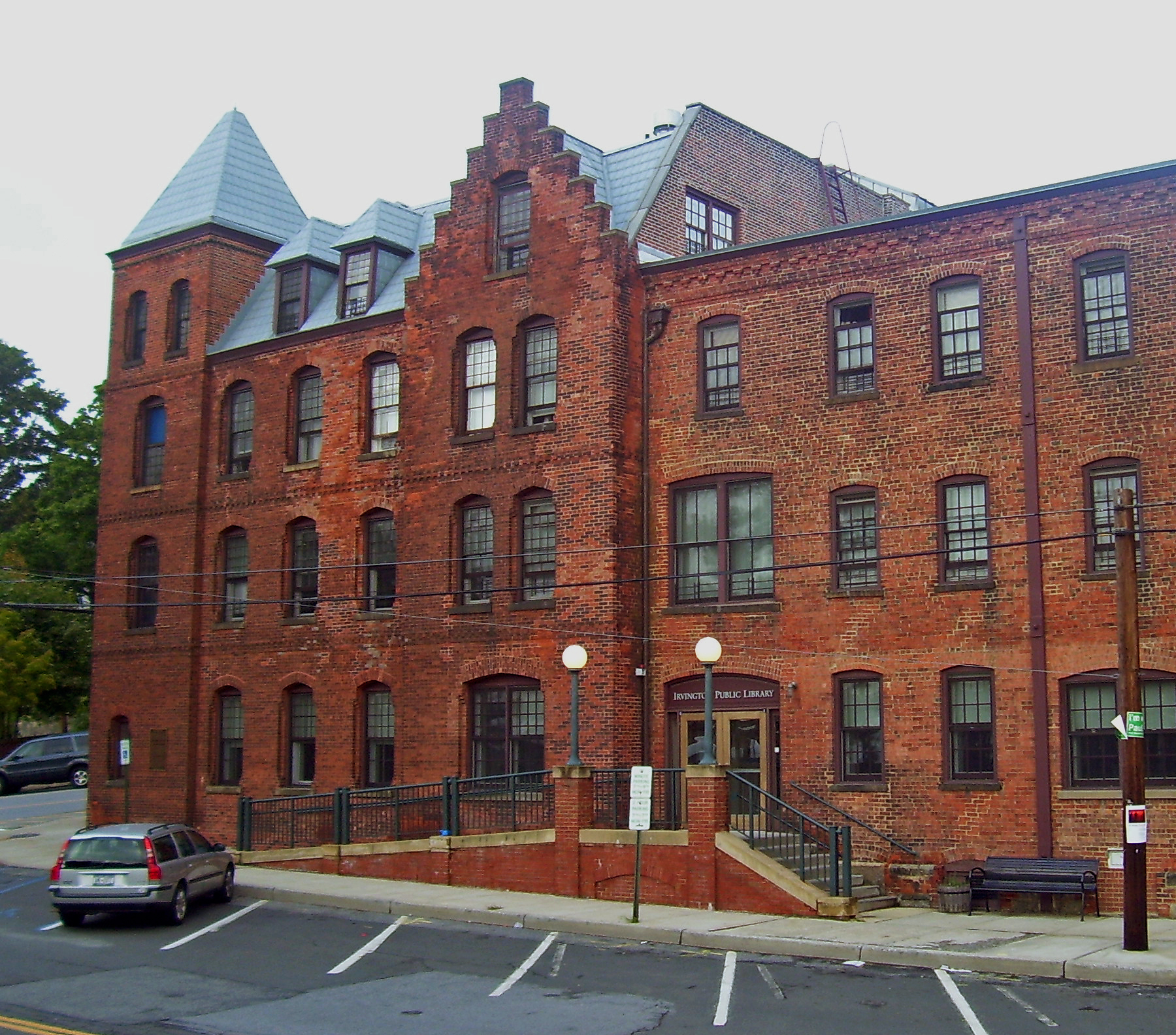 Lord and Burnham Building, Irvington, NY, USA. Currently used as public library